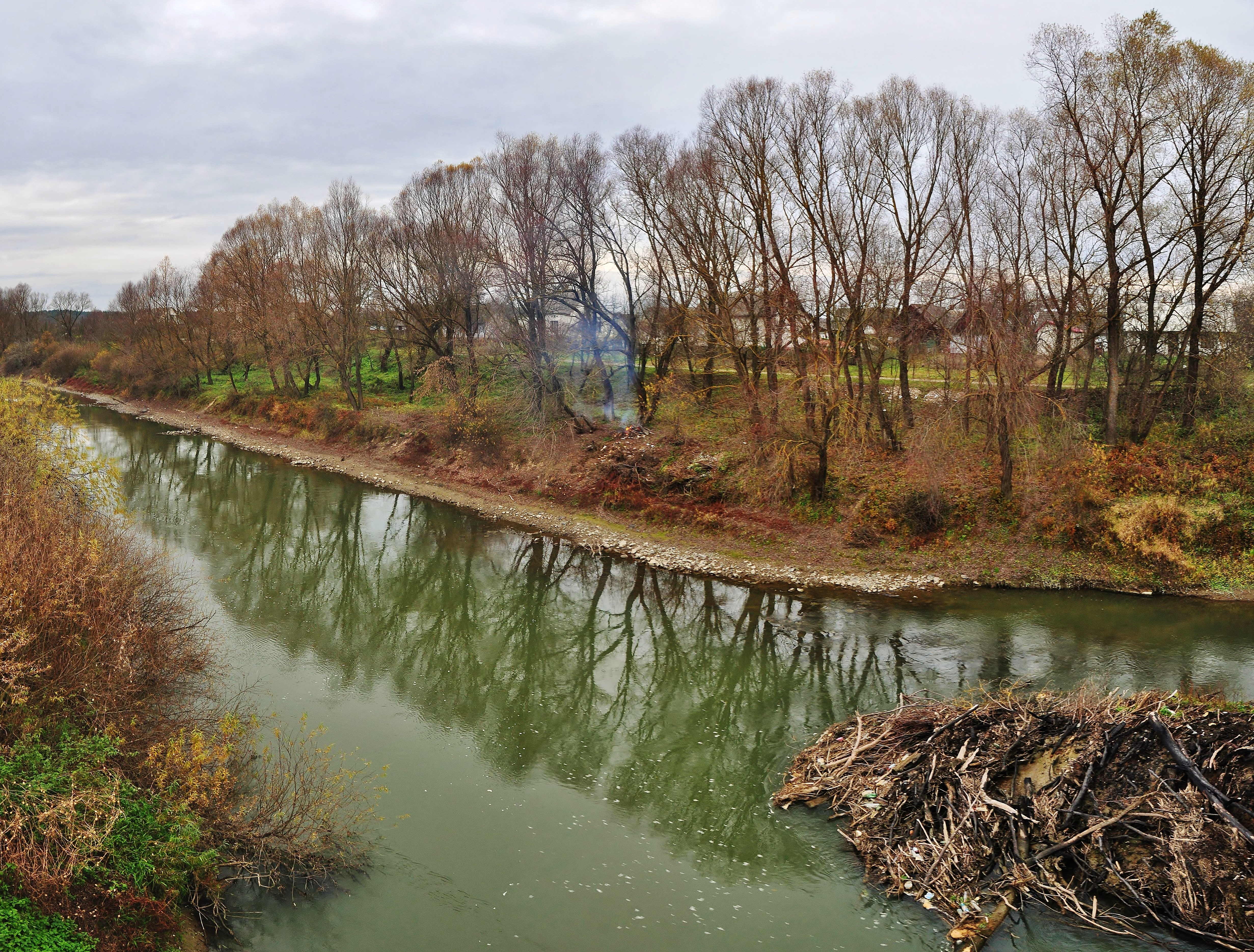 Dniester River in Kolodruby village, Mykolaiv Raion, Lviv Oblast